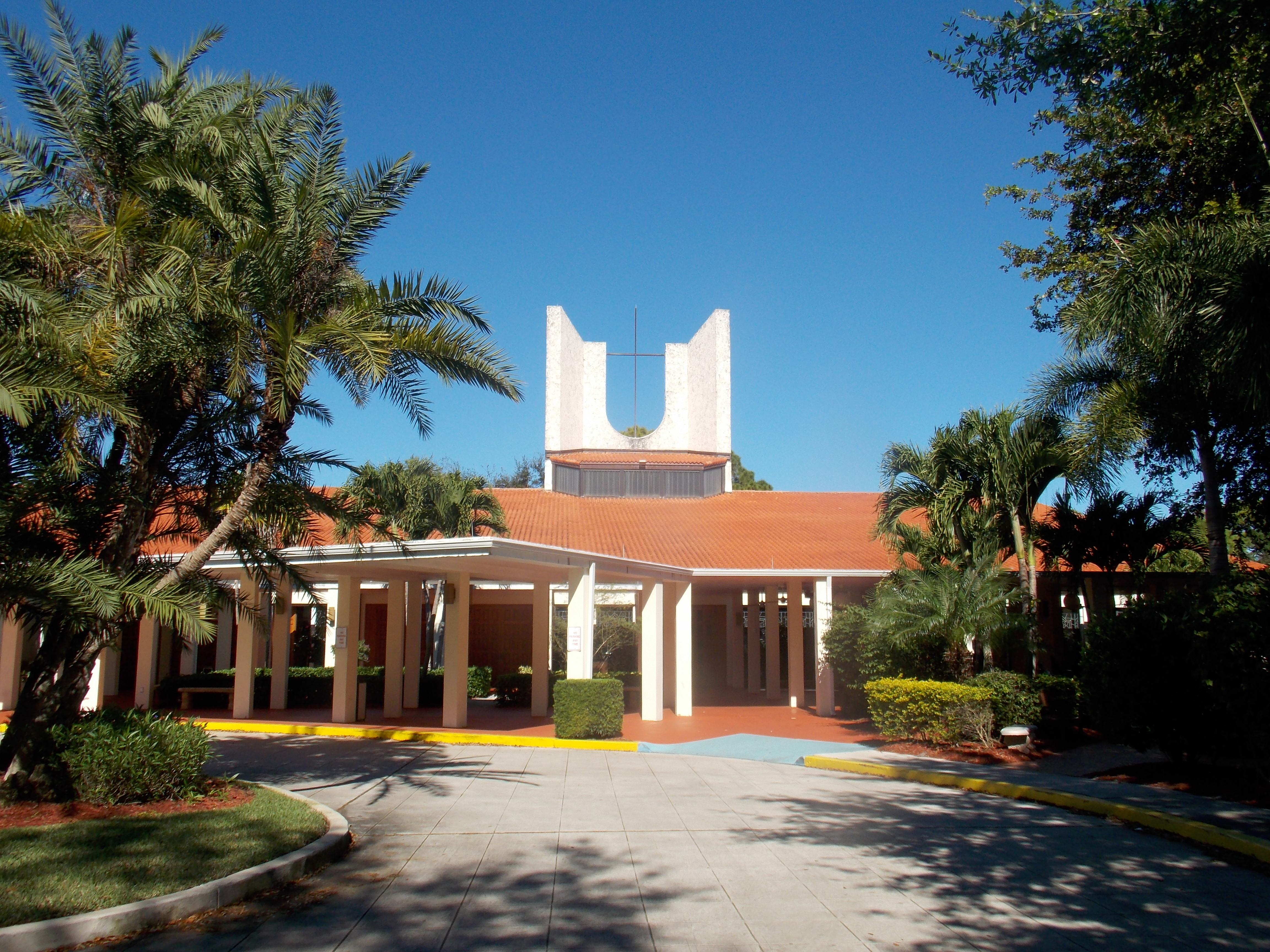 Cathedral of St. Ignatius Loyola in Palm Beach Gardens, Florida